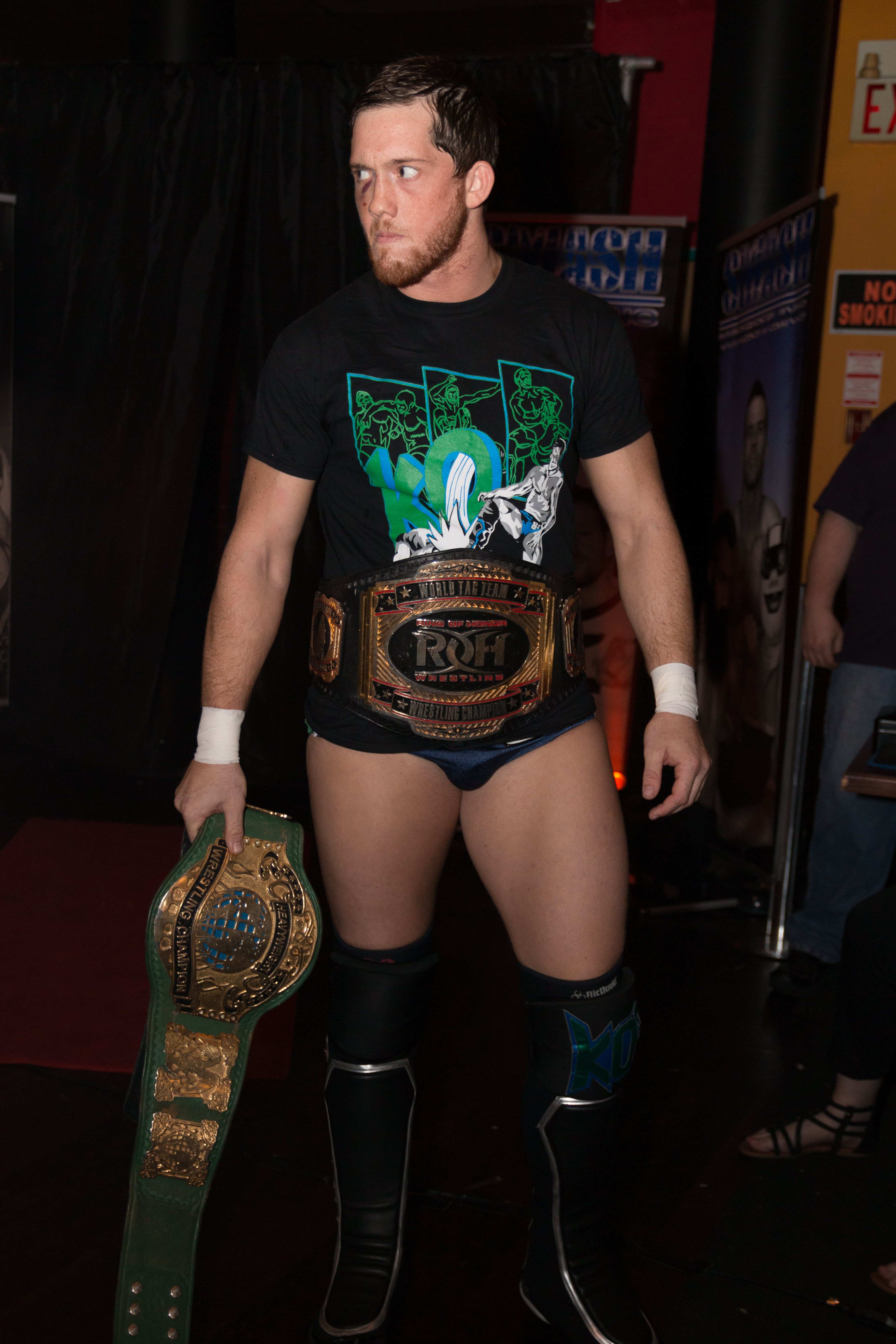 Kyle O'Reilly, wearing the Ring of Honor Tag Team Championship and carrying the PWG World Championship, at Smash Wrestling's Rival Schools show in Toronto, ON